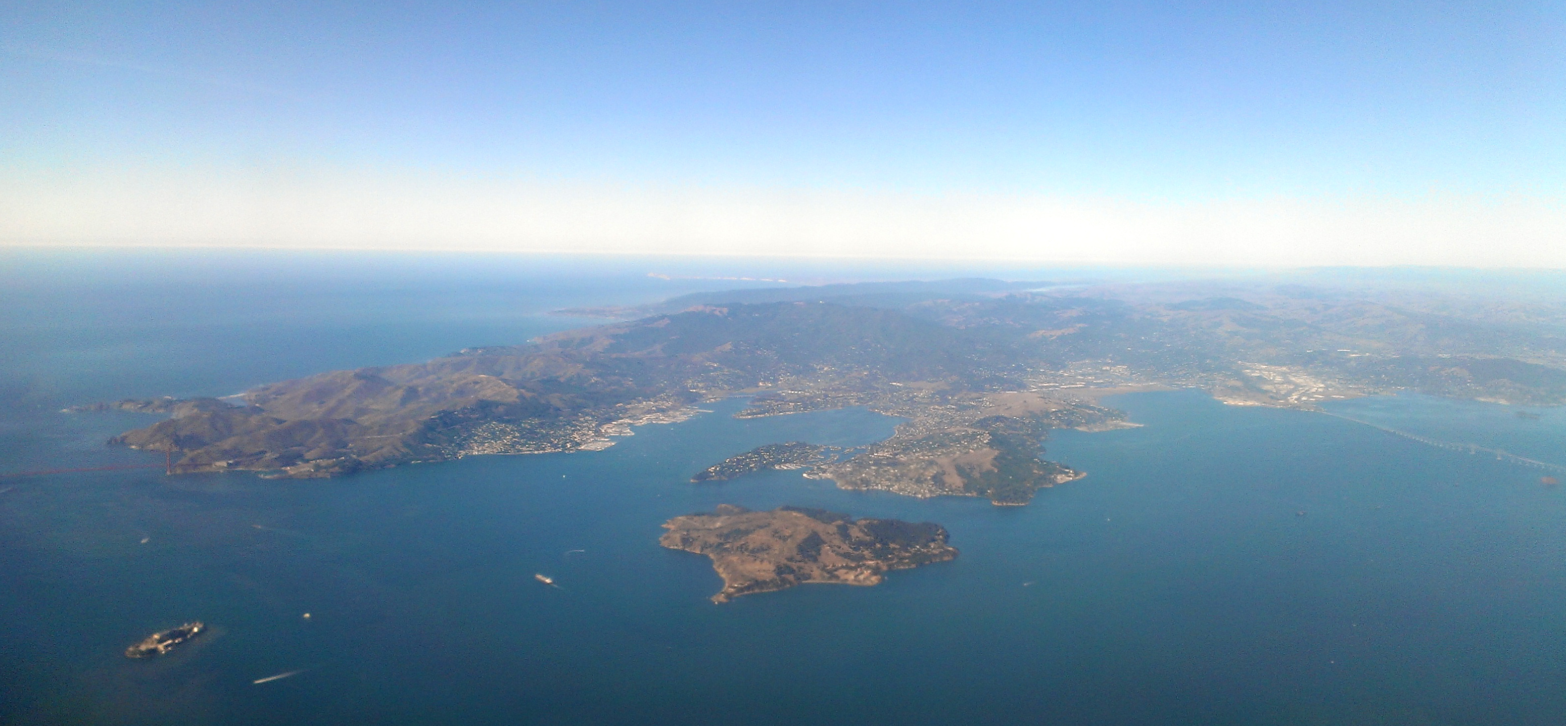 View of Marin from southeast